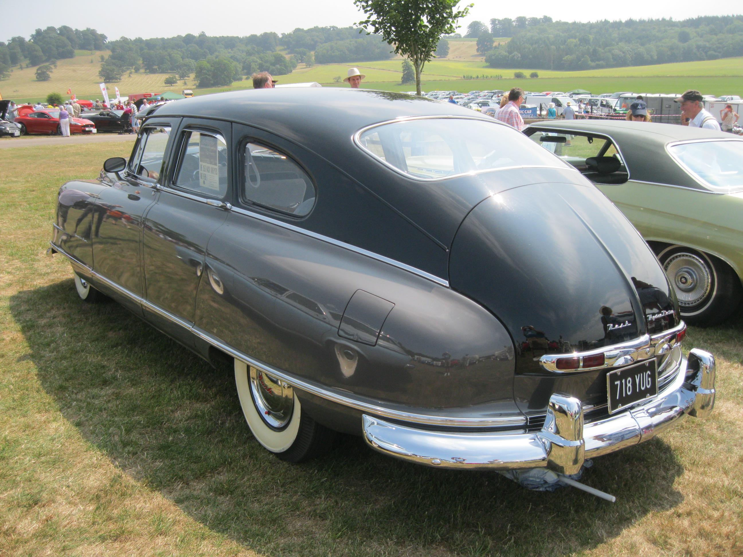 Stunning post-war U.S. streamliner spotted at the Sherborne Castle Classic Car Show on 21st July 2013.